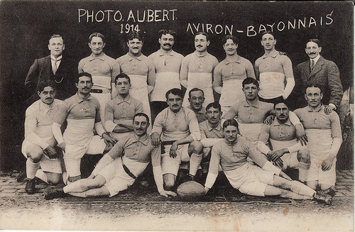 Aviron Bayonnais rugby union team in 1914.